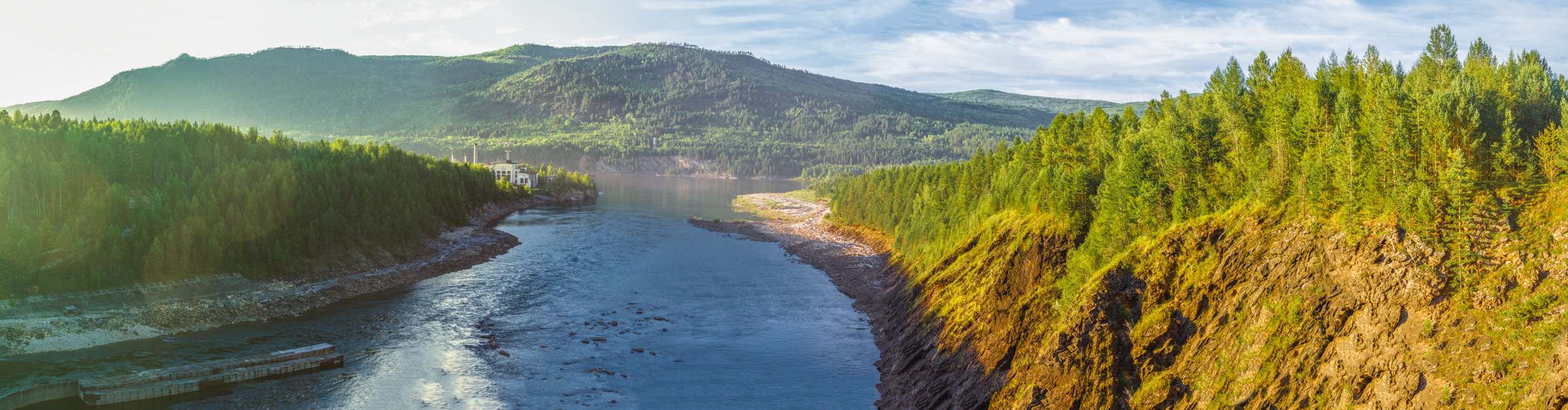 Мамаканское водохранилище